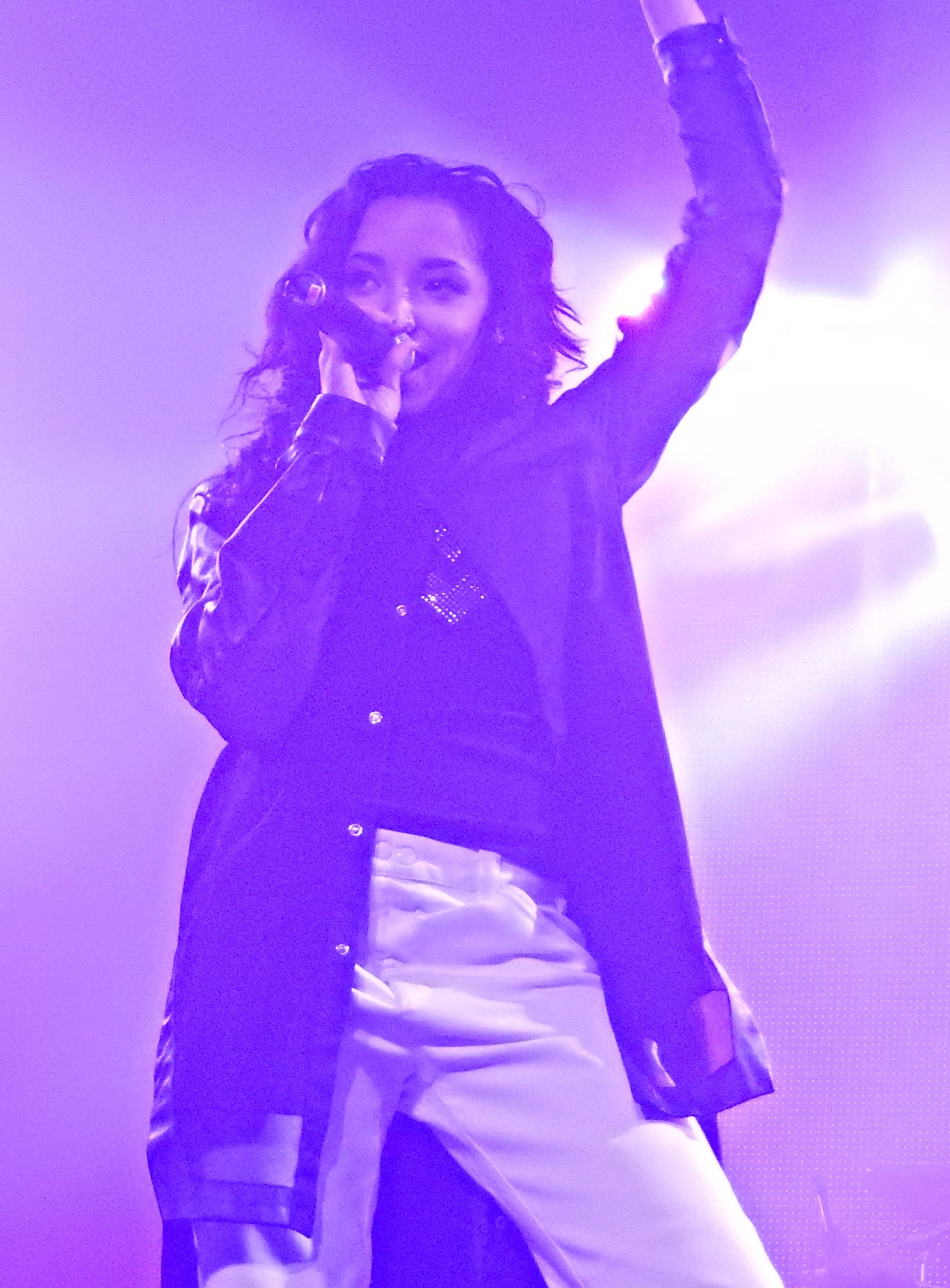 Tinashe performing at Heaven on March 2, 2015.